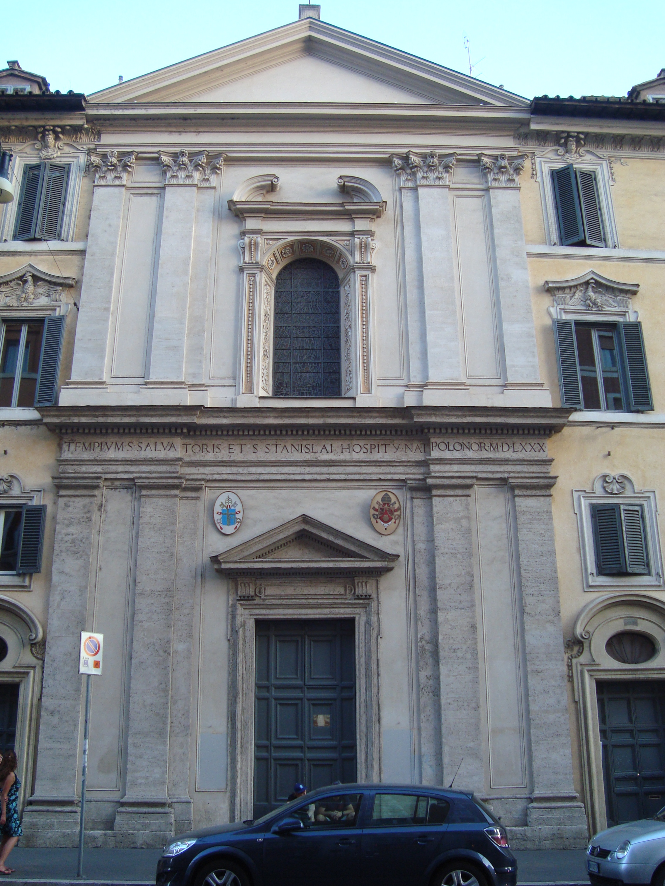 Facade of the church Santo Stanislao dei Polacchi, via delle Bottiche Oscure in Rome